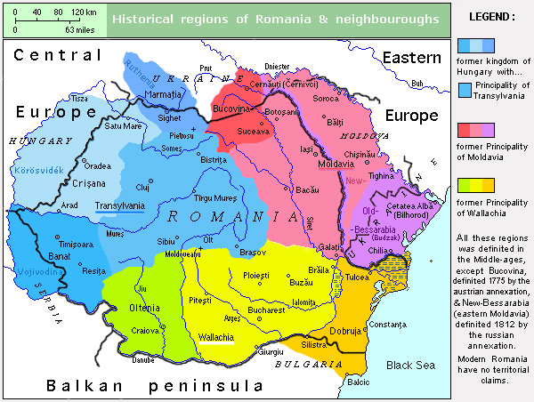 Historical regions of Romania & neigboroughs